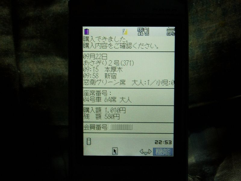 Mobile ticket of Odakyu Romancecar